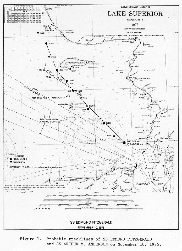 Figure 1: Trackline/Course of the SS EDMUND FITZGERALD